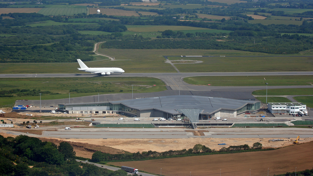 Airbus A380 with the new terminal under construction